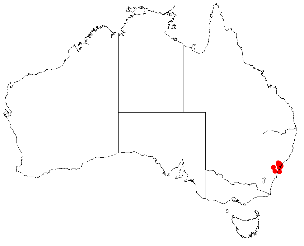 Persoonia isophylla Occurrence data downloaded from Australasian Virtual Herbarium on 30 October 2018 from